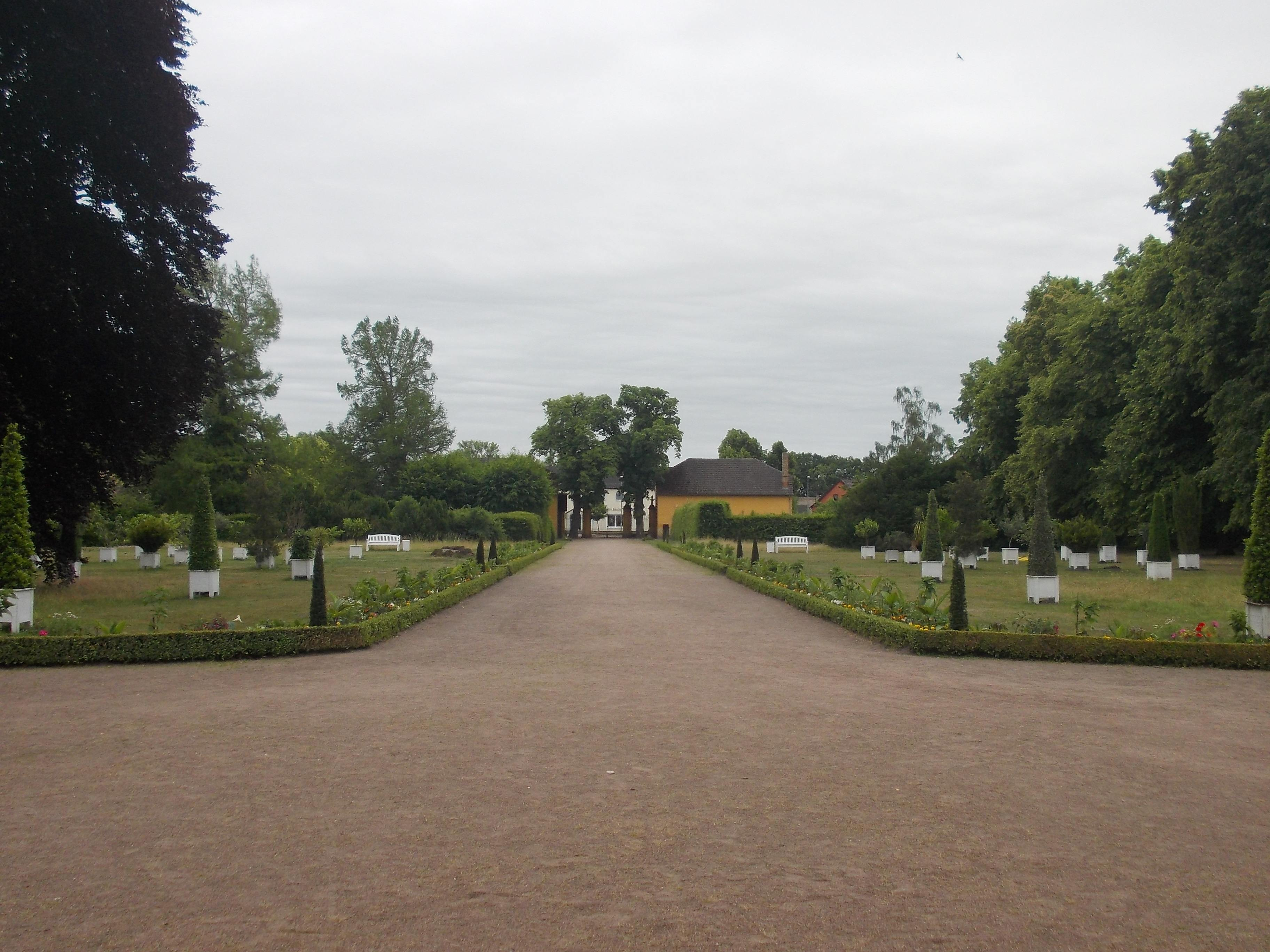 Central axis of the southern part in the gardens of Mosigkau Castle (Dessau-Rosslau, Saxony-Anhalt)